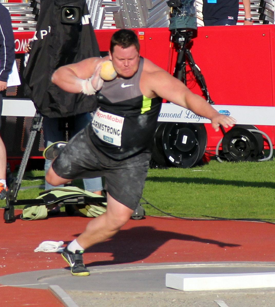 Dylan Armstrong at the 2012 Bislett Games